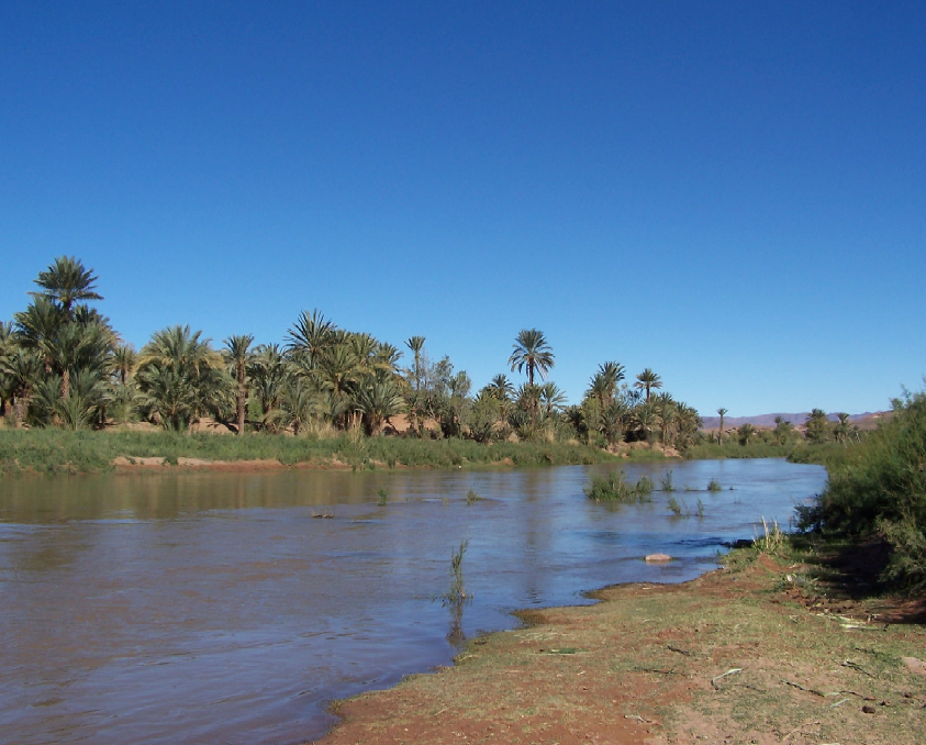 Oasis in Morocco